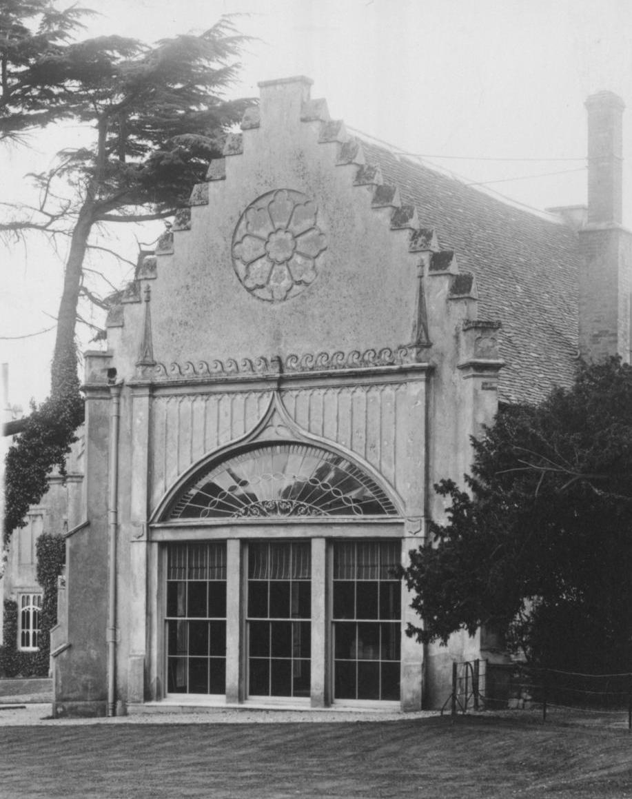 Photograph of Wyatt's altered chapel at Sandleford Priory, 1906, by Evelyn Elizabeth Myers (c. 1872-1909).